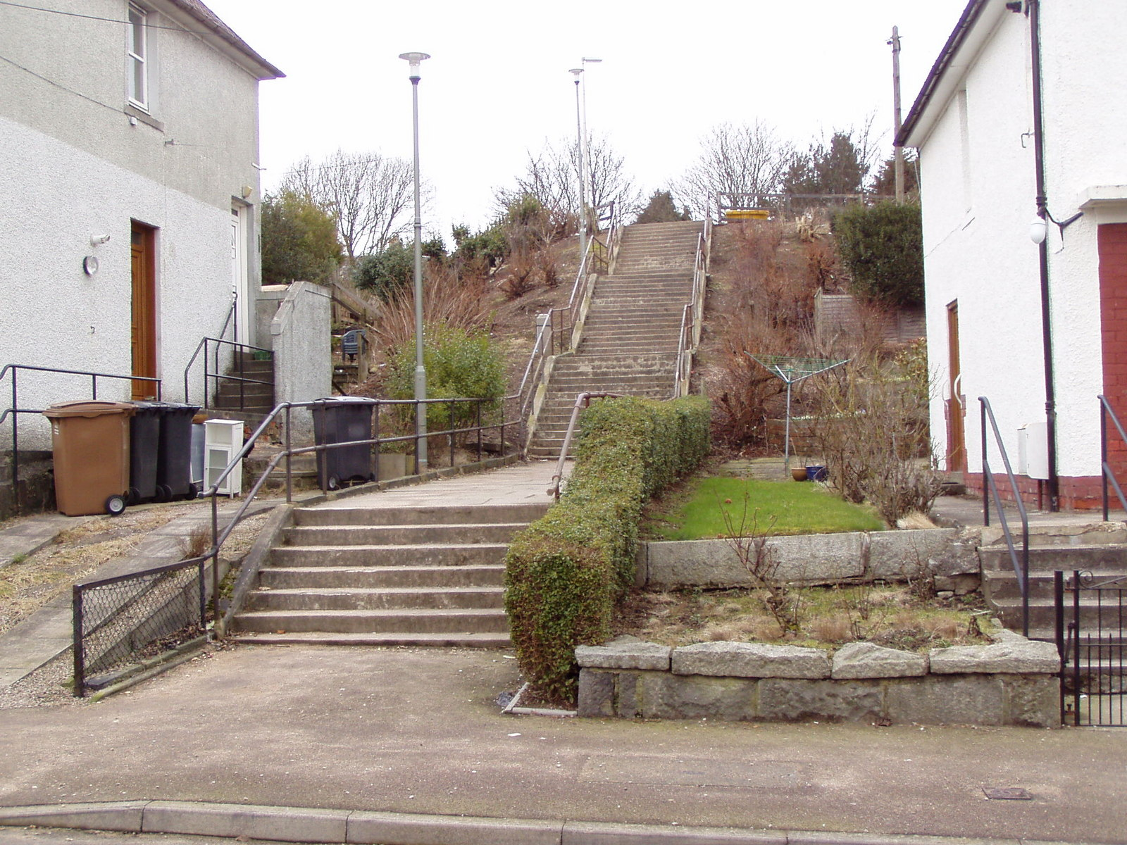 Steps up to bridge over Old Deeside Line